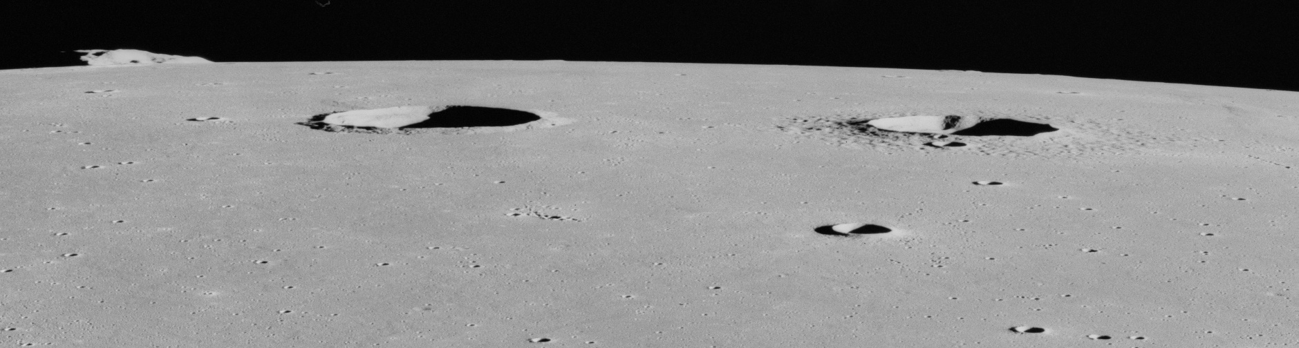 Highly oblique view of Helicon (left) and Le Verrier (right), Mare Imbrium, on the moon. The mountain on the horizon at left is Promontorium Laplace, about 180 km beyond Helicon. Note that Helicon's ejecta is buried by the mare lava, but Le Verrier's is not. Camera Altitude is 101 km, Sun Elevation is 8° (from right).